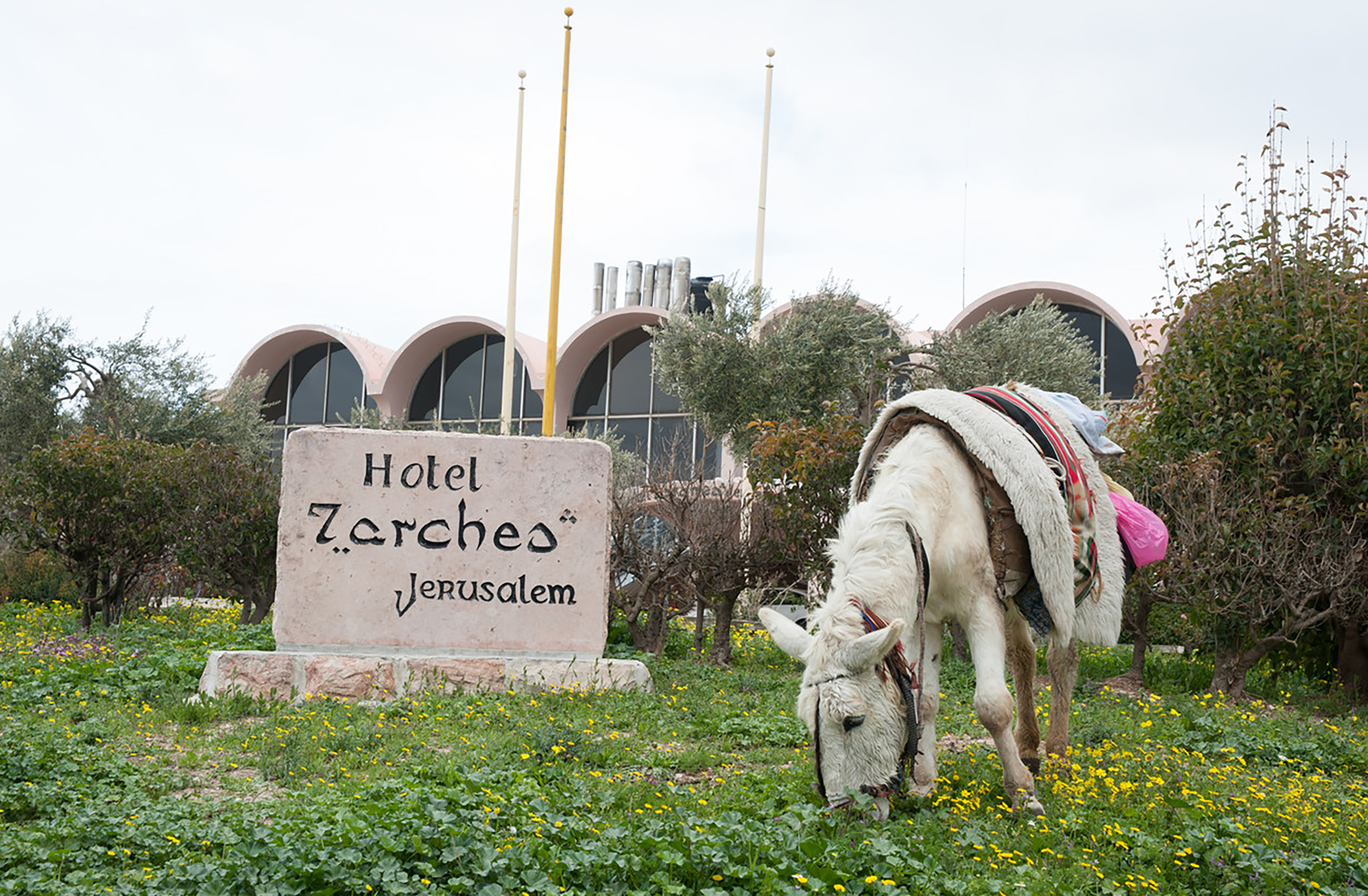 Jérusalem - Vielle ville et Mont des Oliviers.